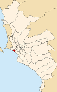 Map of Lima highlighting the Magdalena del Mar district in Lima.